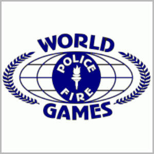 Official logo for the World Police & Fire Games